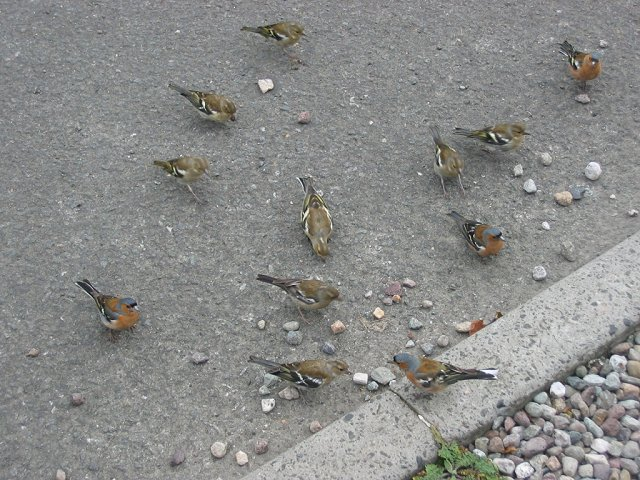 Chaffinches, Inveruglas. A familiar sight at Highland carparks. A popular carpark at Inveruglas has been identified by the local chaffinch population as a good begging spot. They fly in as soon as a boot is opened, used to getting scraps from hill goers' rucksacs. Some of these are this year's young, they soon learn.